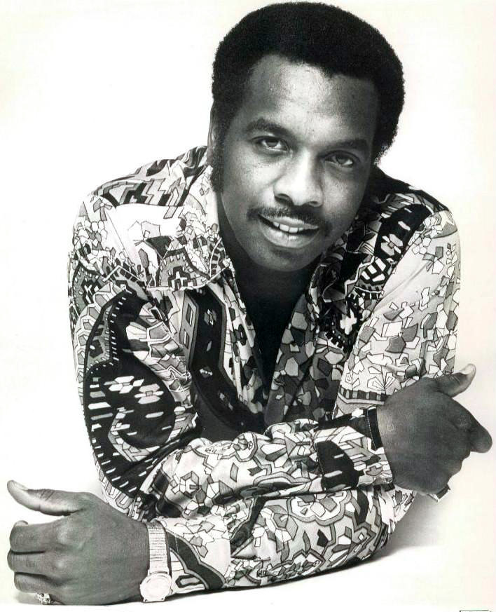 Photo of singer William Bell.